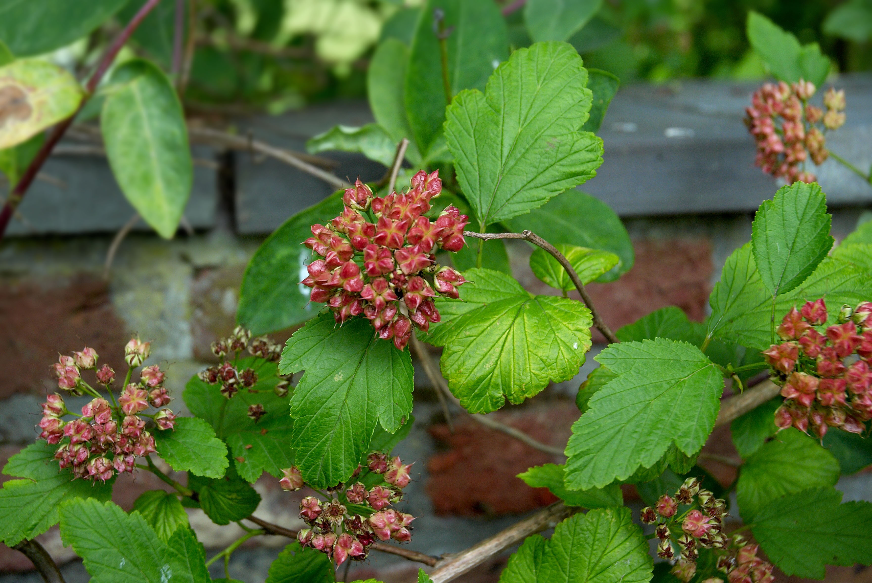 Dwarf Golden Ninebark